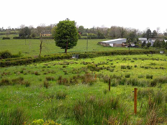 Fields at Drumerdannan The R201 Killashandra to Belturbet main road runs between the hedgerows in the foreground.